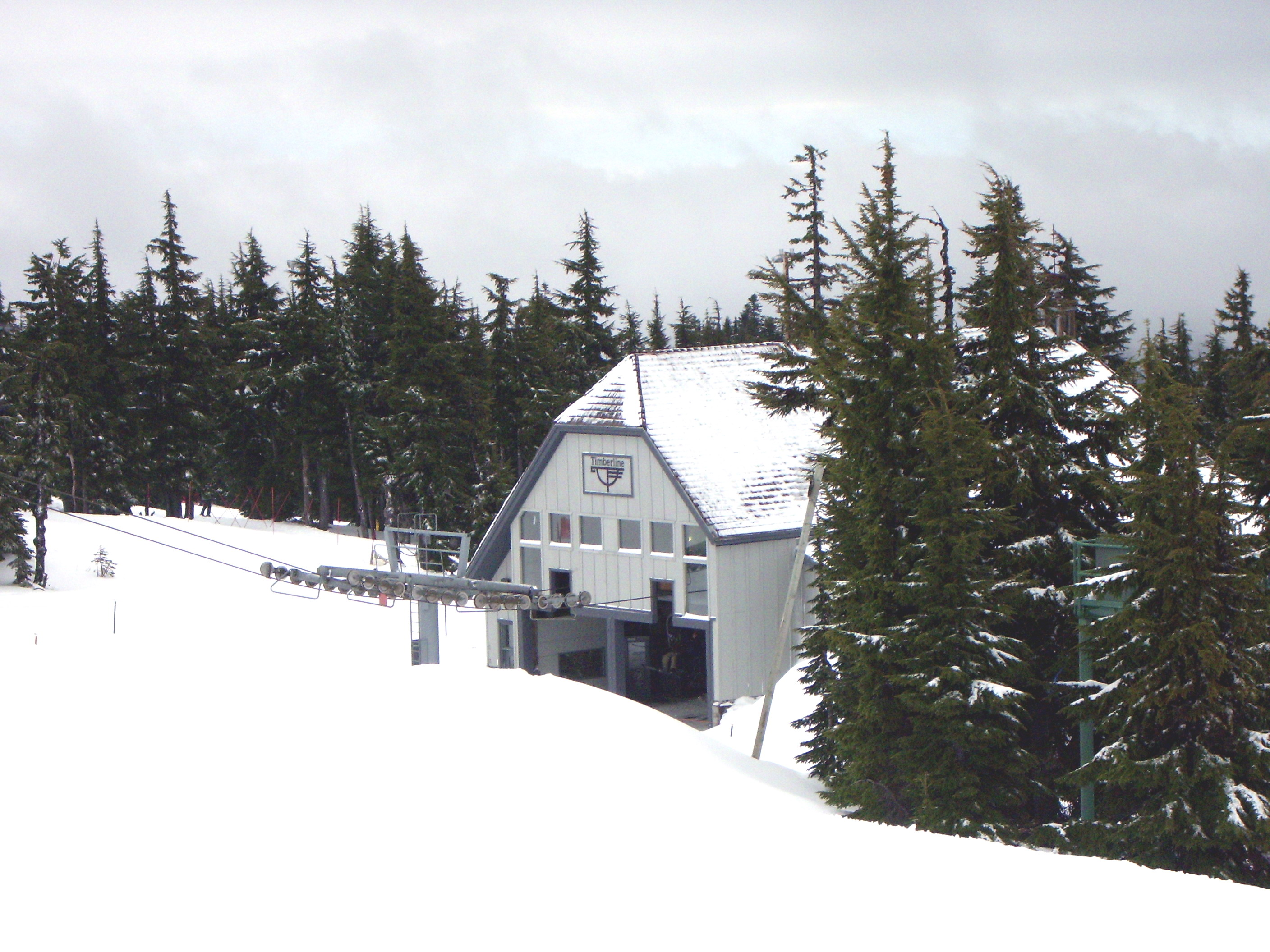 Modern Magic Mile chairlift base terminal and overnight chair storage barn. Mt. Hood Timberline ski area.